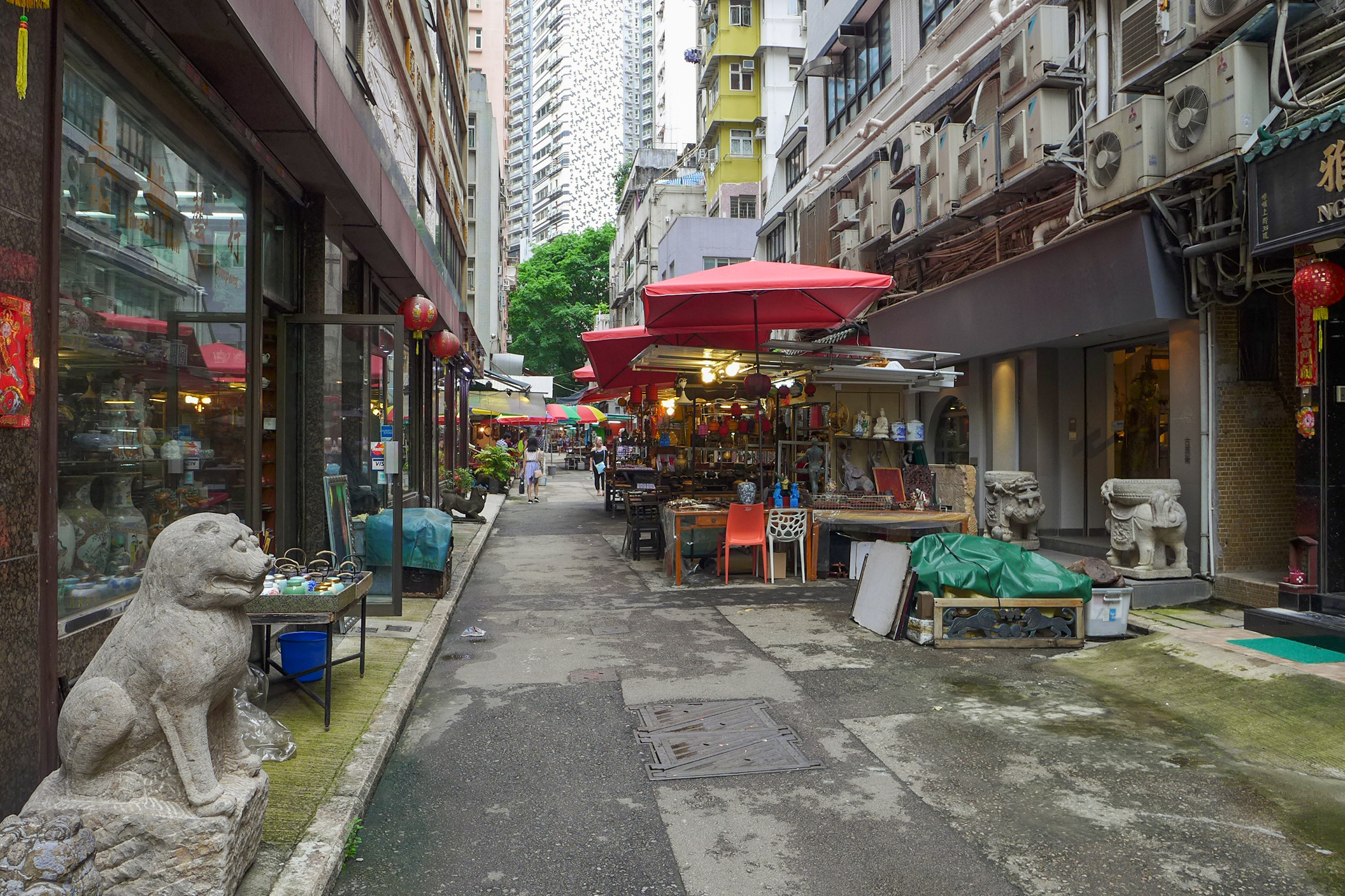 Upper Lascar Row